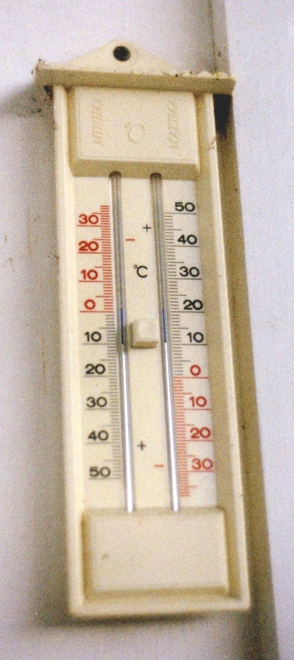 A Minimum-Maximum Thermometer on a wall.